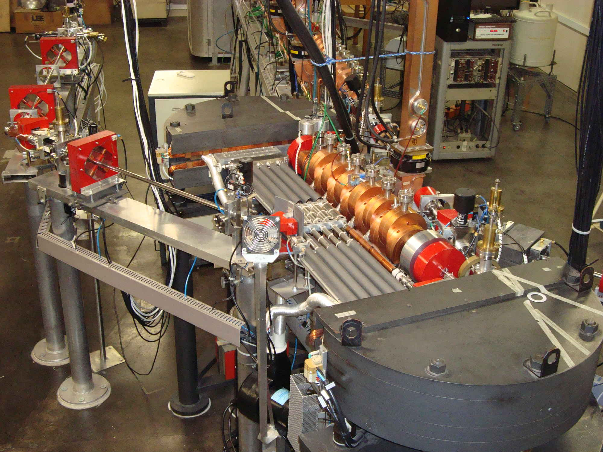 Microtron electron accelerator from the Institute of Physics of Sao Paulo University - 2016